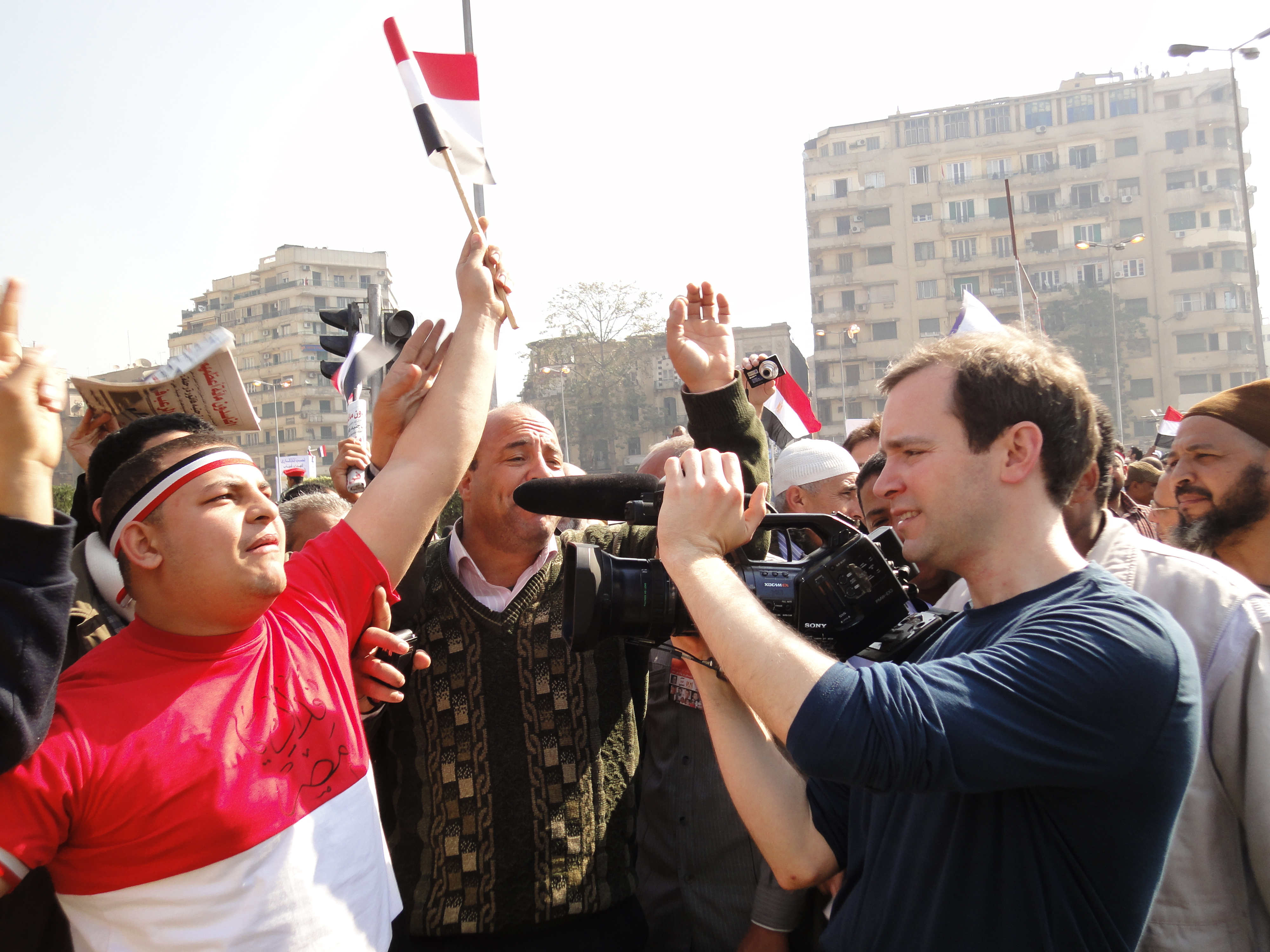 Documentary Filmmaker Matthew O'Neill filming in Tahrir Square, February 2011